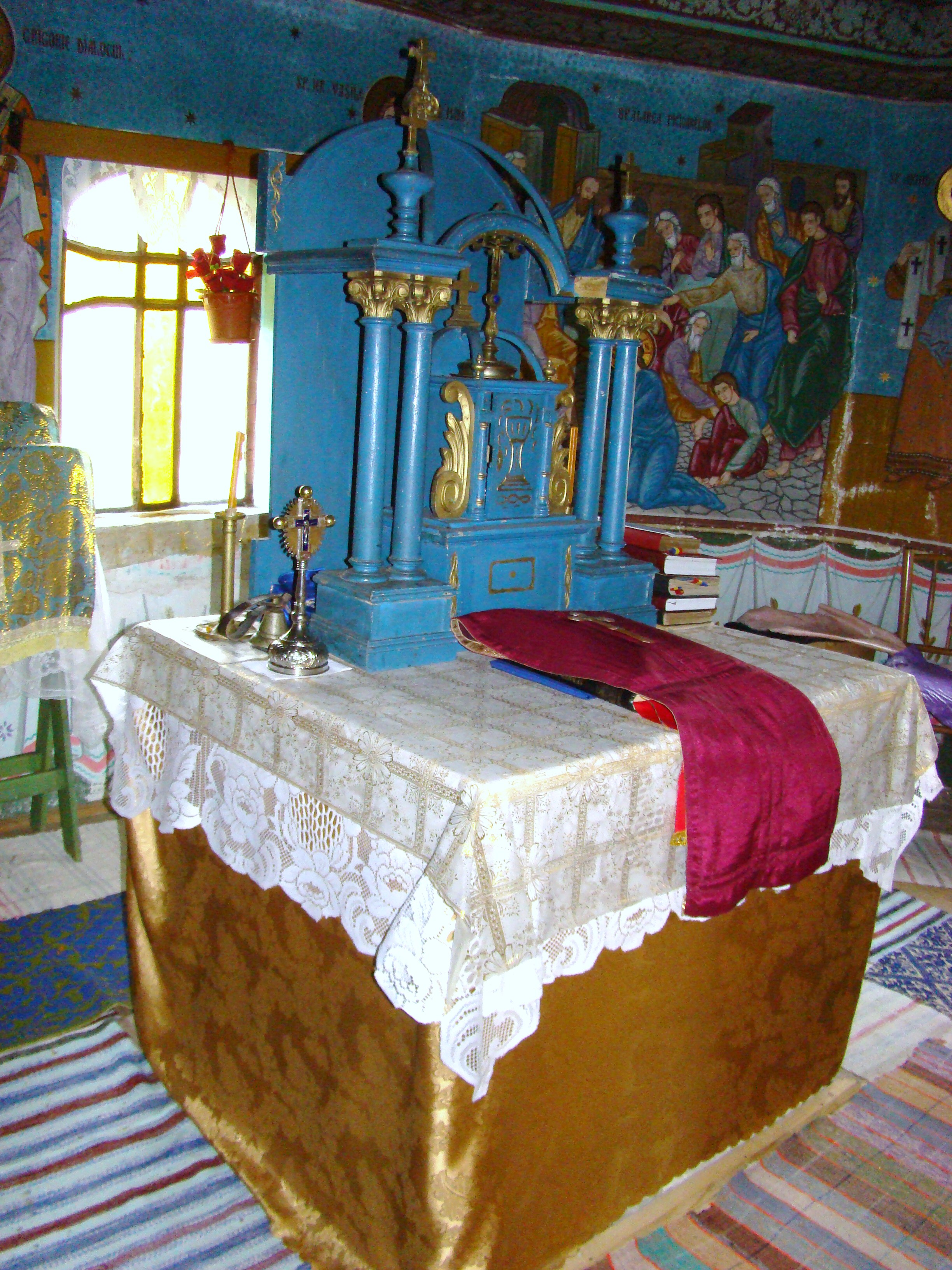 Wooden church in Valea Mare, Arad county, Romania